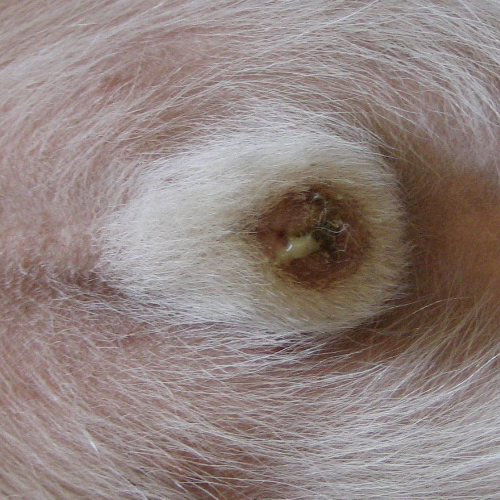 Prepuce discharge, indicative of balanoposthitis. Animal pictured is four year old dog, mixed breed.